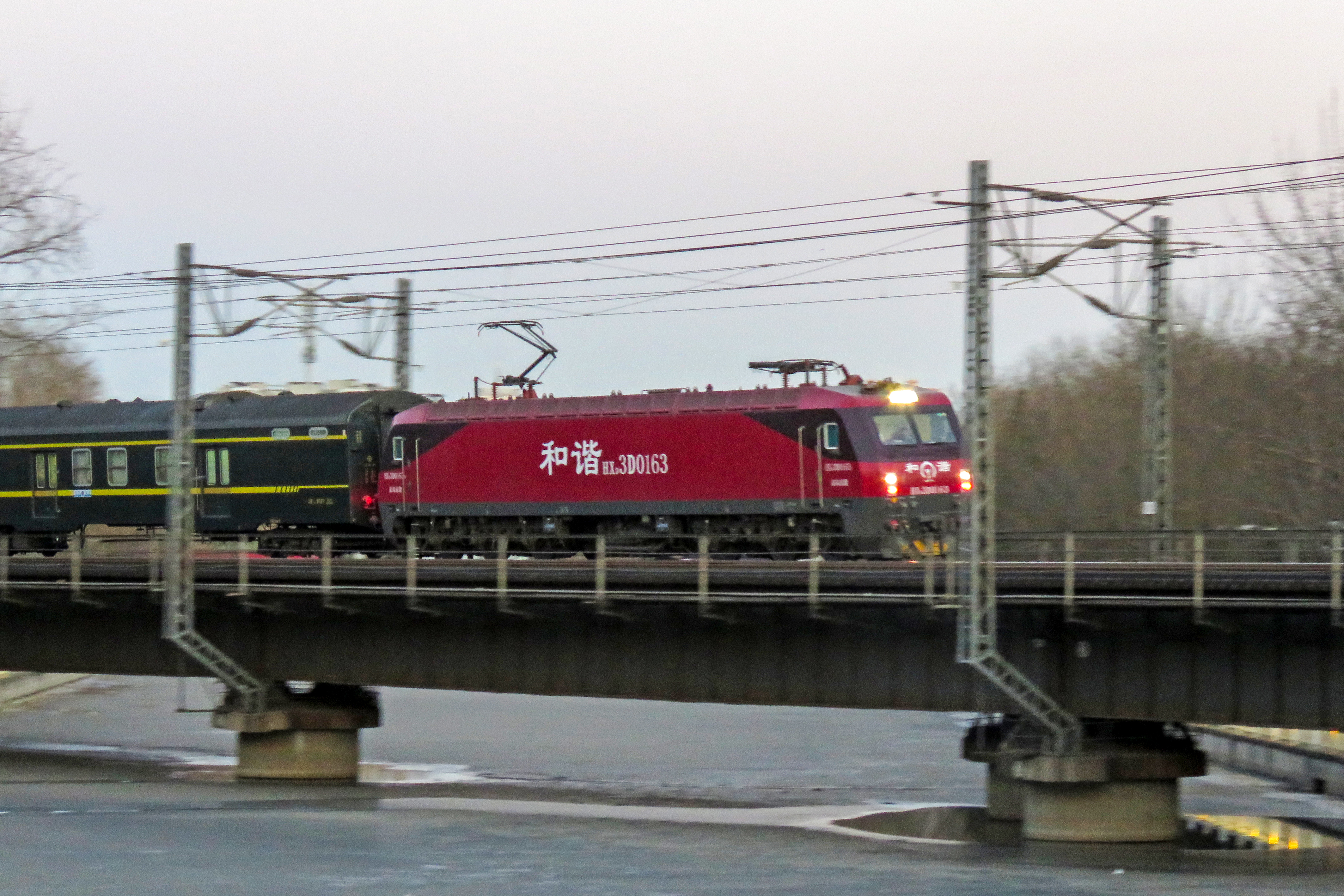 T31 to Hangzhou - on its 8th-to-last journey.